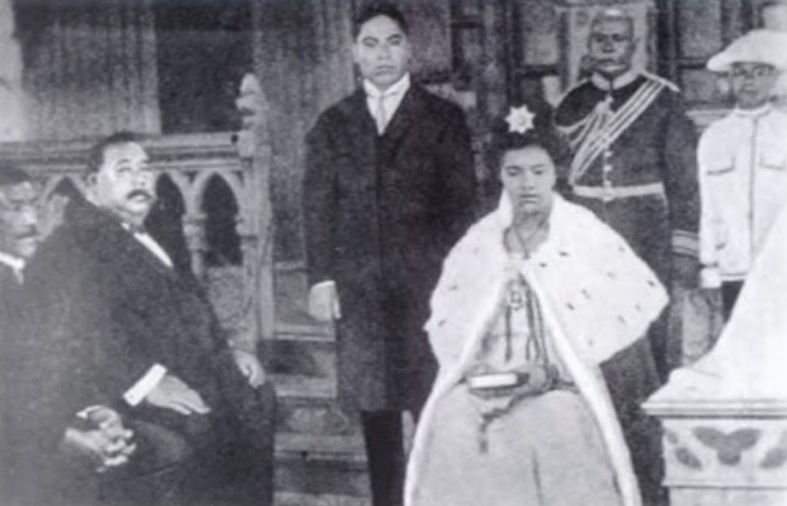 The coronation of Queen Sālote in the Royal Chapel, 11 October 1918. From left: Sioeli Pangia, 'Ulukālala (S.F.M.), Tungī Mailefihi, Queen Sālote and one of the Queen's two pages. Two days previously (9 October) Queen Salote had been installed in the title of Tu'i Kanakupolu.